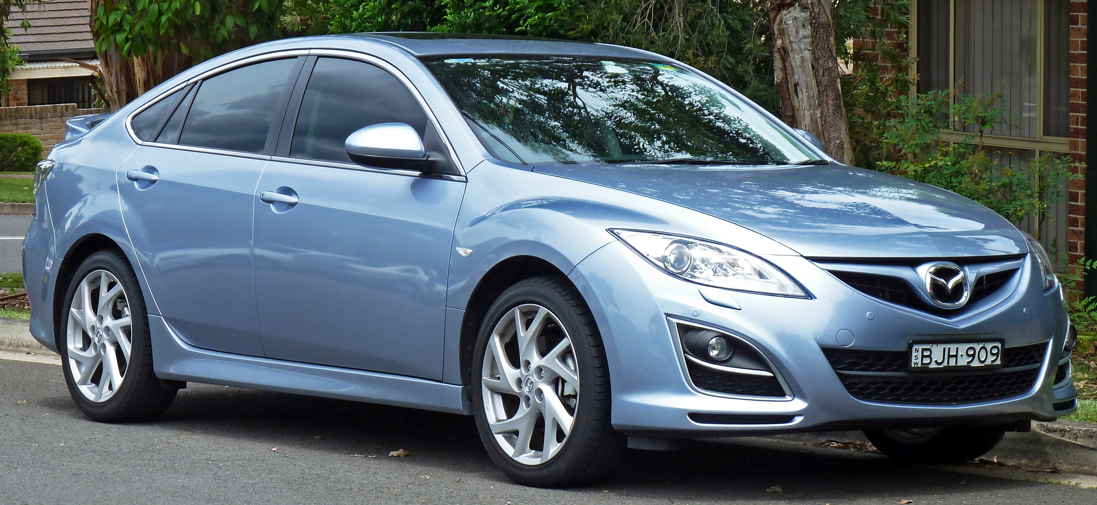 2010 Mazda6 (GH Series 2 MY10) Luxury Sports hatchback. Photographed in Gymea, New South Wales, Australia.